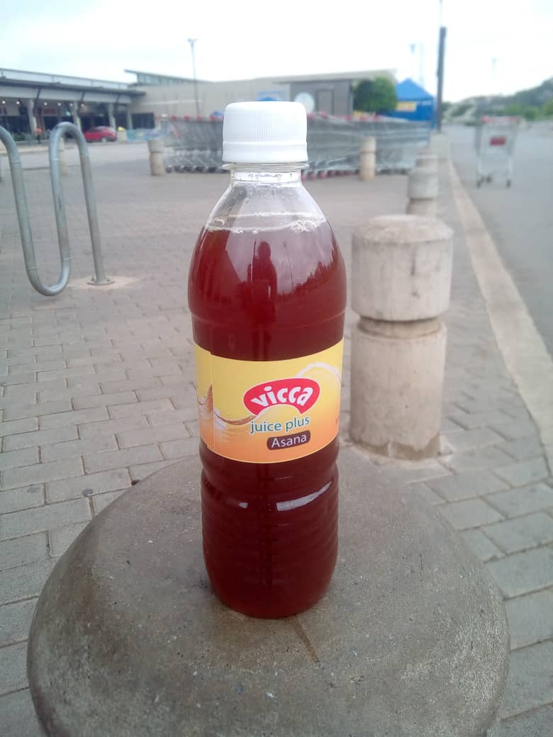 A bottle of caramelized corn drink called asana